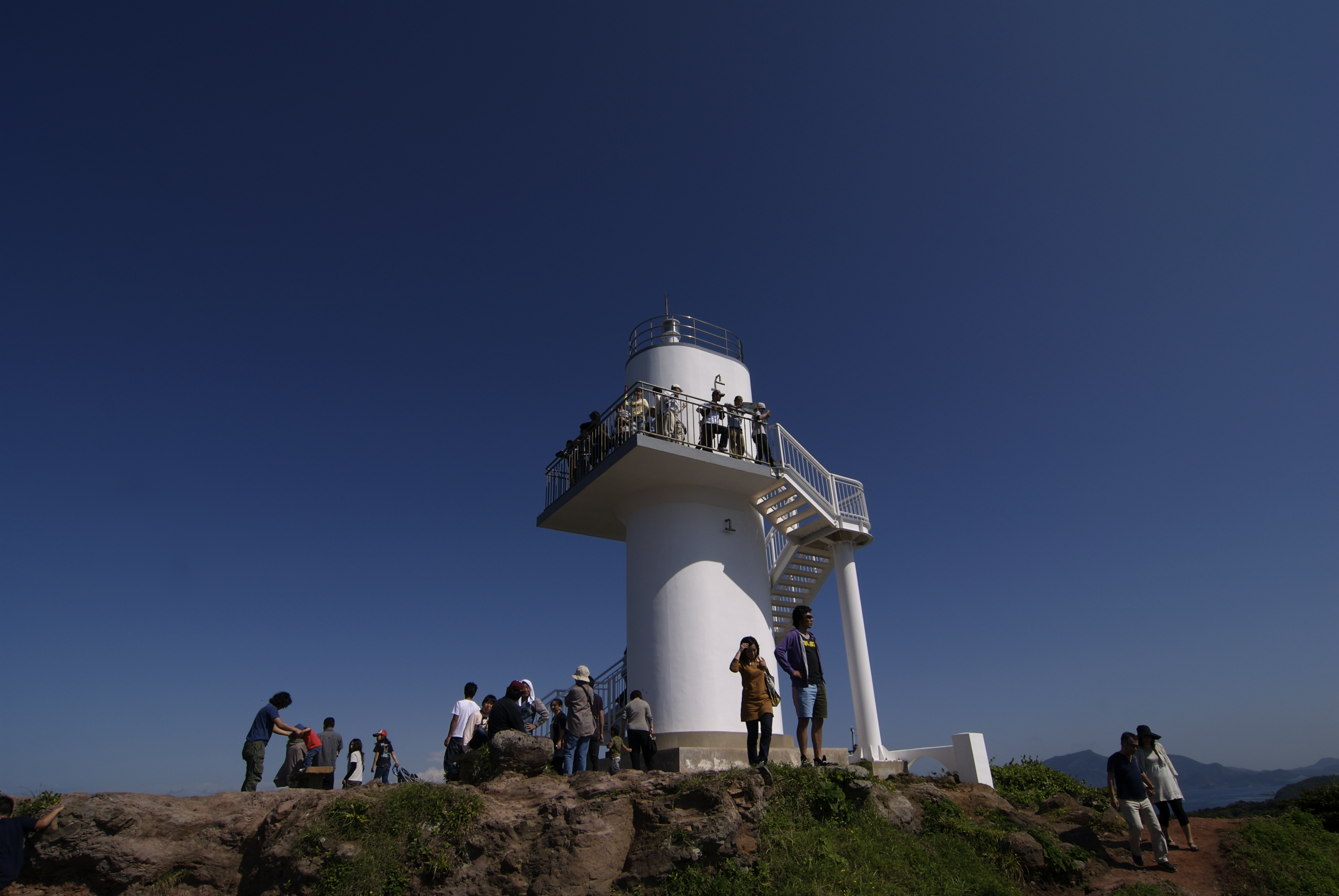 Ōbae Lighthouse in Ikitsuki, Hirado City, Nagasaki, Japan